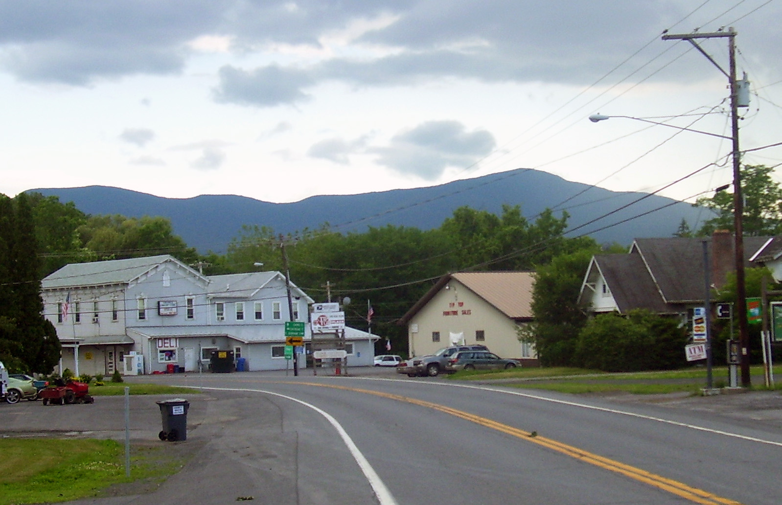 View south down NY 32 into downtown Freehold, NY, USA, with the Catskill Escarpment in the background.